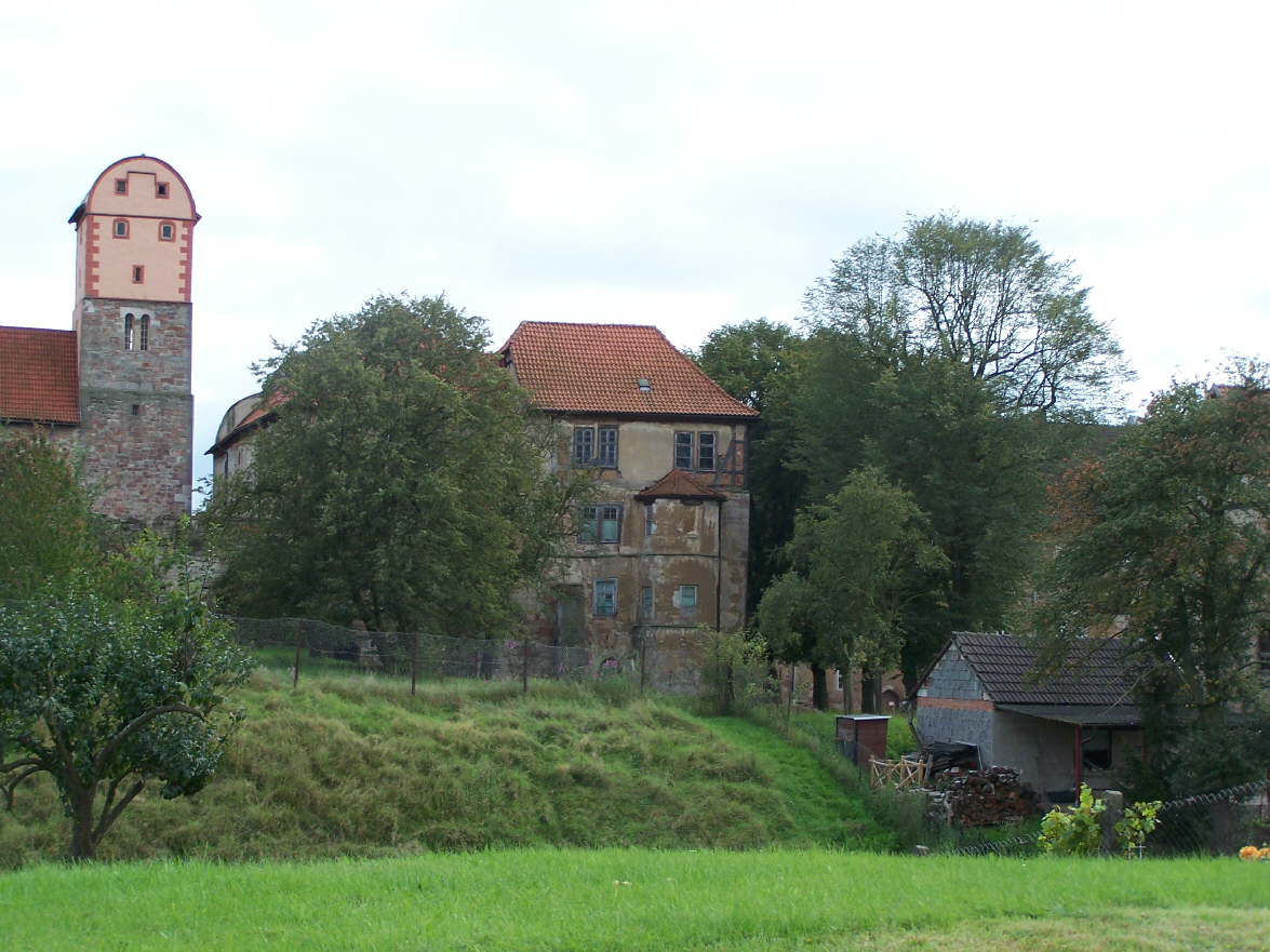 The basilica in Herrenbreitungen.